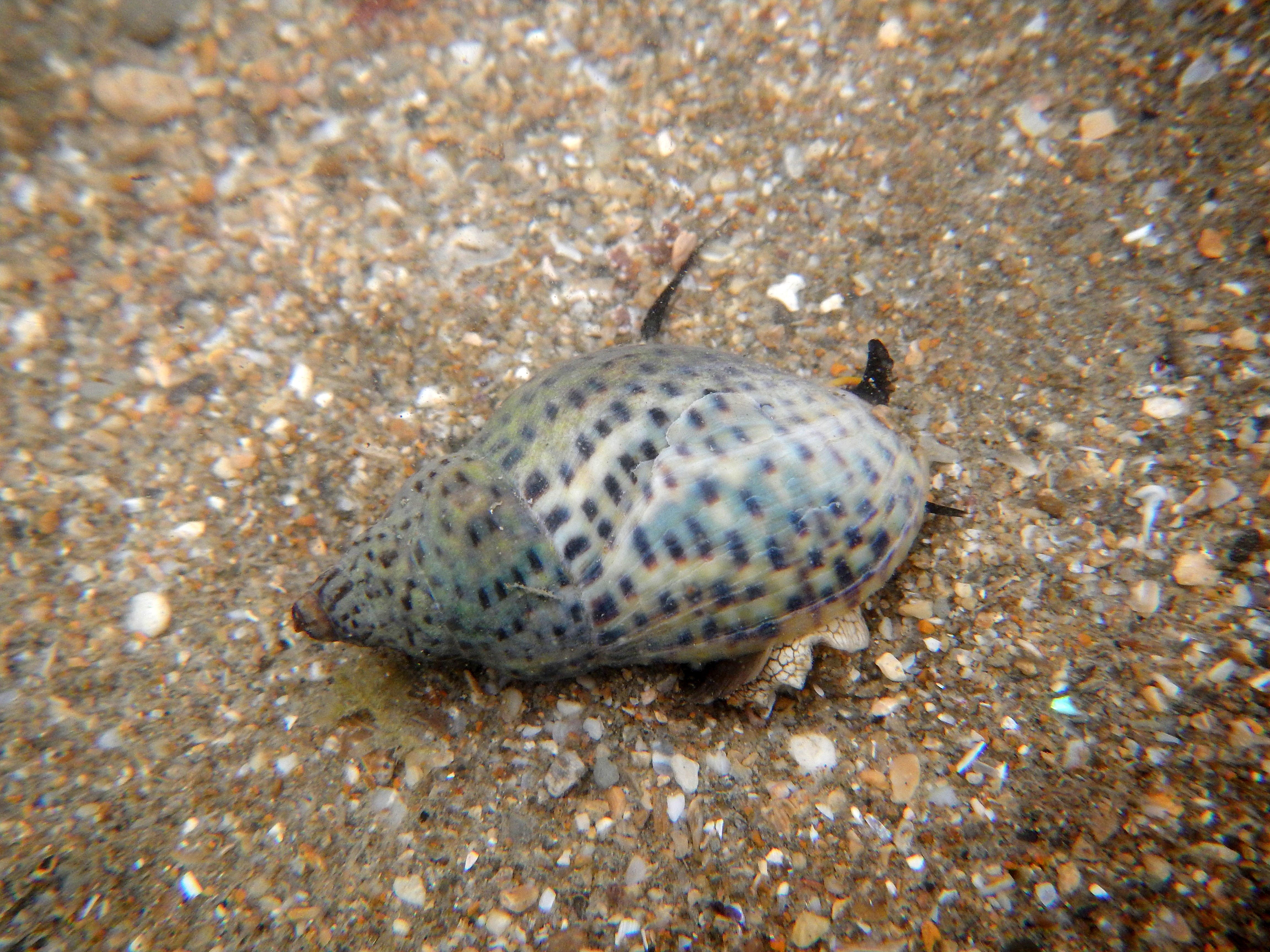 An underwater photograph of a live Cominella adspersa, taken at Castlepoint in New Zealand.